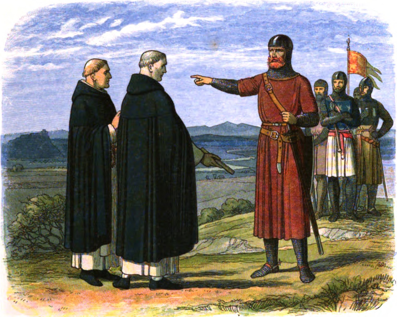 William Wallace rejects the English proposals to put down his arms.